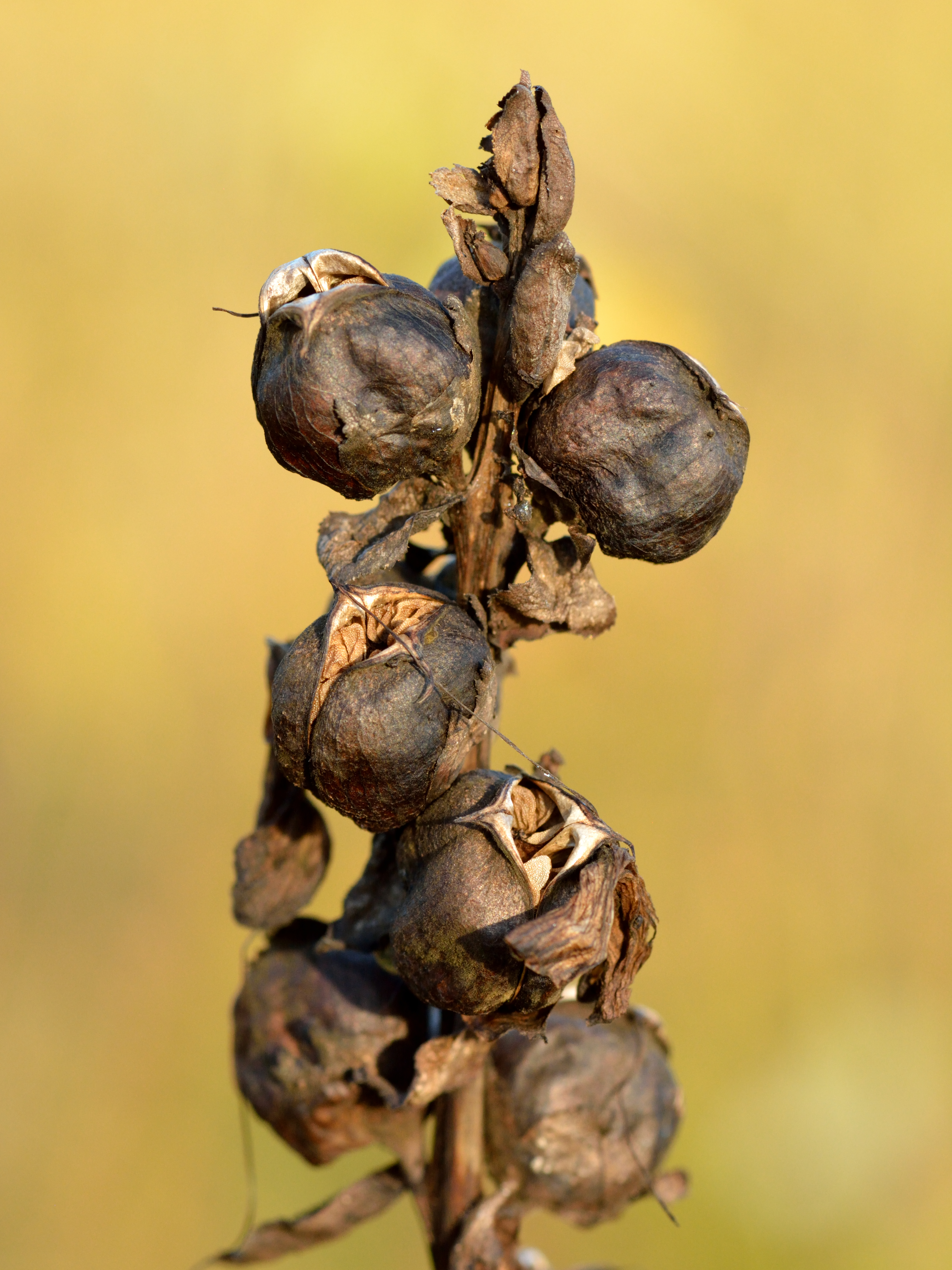 Seed capsules of the moor-king (Pedicularis sceptrum-carolinum). Niitvälja bog, Northwestern Estonia.